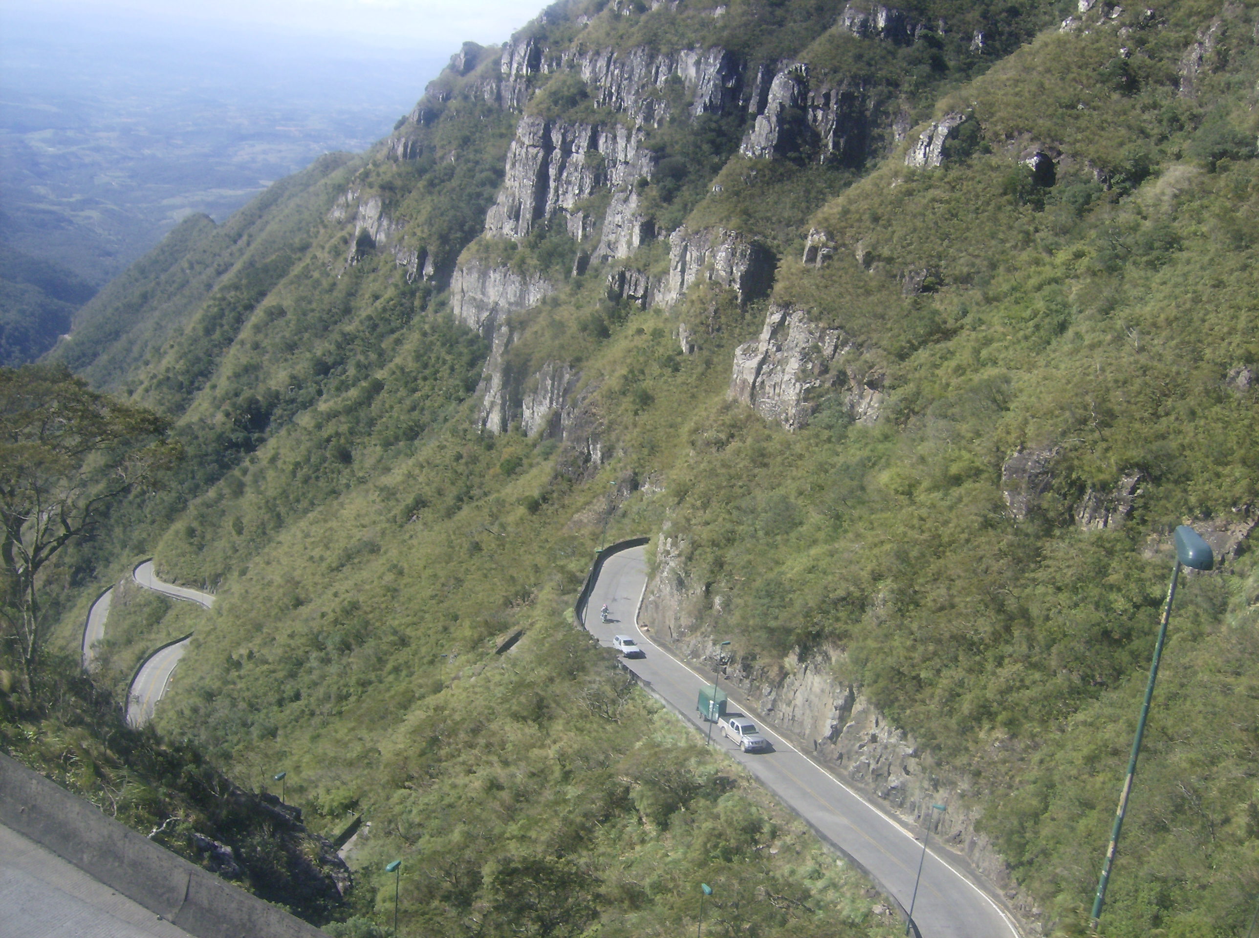 A road (SC-438) in a mountain range named Serra do Rio do Rastro, situated in the state of Santa Catarina, Brazil.